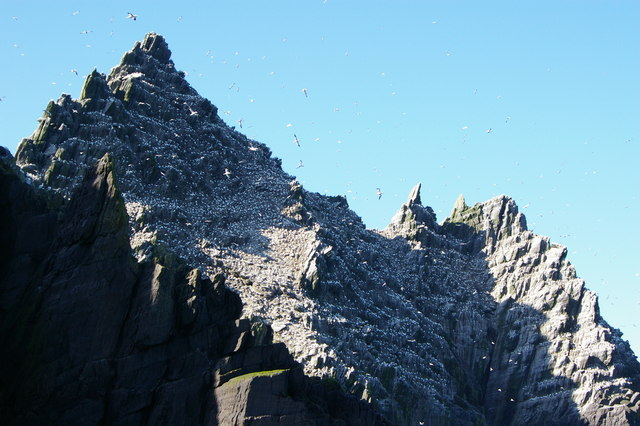 Sceilg Beag The "white" is due to the thousands of (mostly) gannets nesting on the ledges of this unbelievable rock.